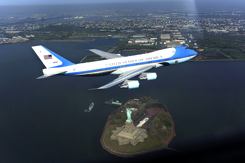 A Boeing VC-25 (tail number 28000) standing in as Air Force One over the Statue of Liberty and the Hudson River, with New Jersey in the background. The flyover, intended as a training mission and photo shoot of the presidential plane, included the aircraft and an F-16 fighter plane escort. It caused a panic in New York City that led to the resignation of Louis Caldera, director of the White House Military Office.